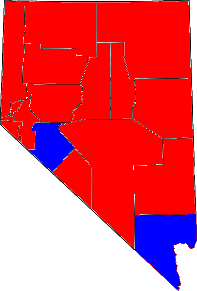 1998 Nevada Senate results by county